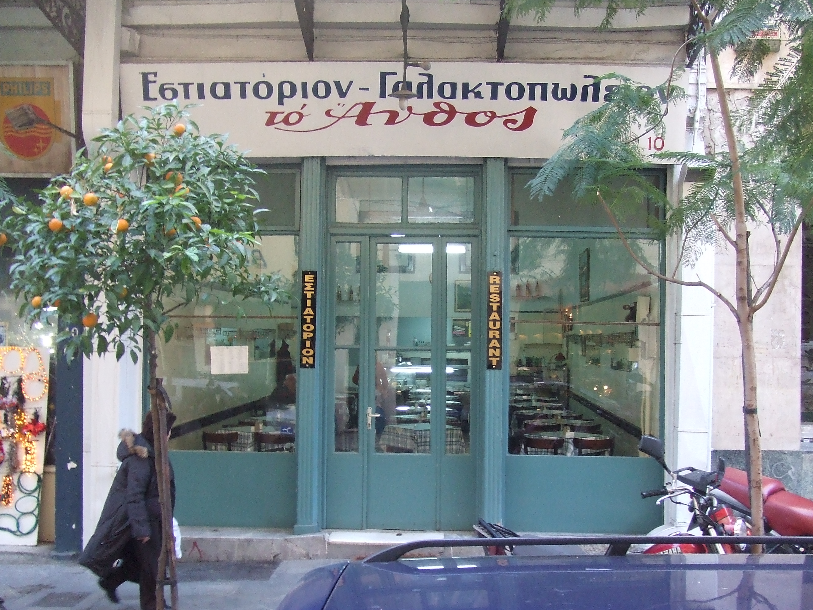 Traditional restaurant in Athens, Greece